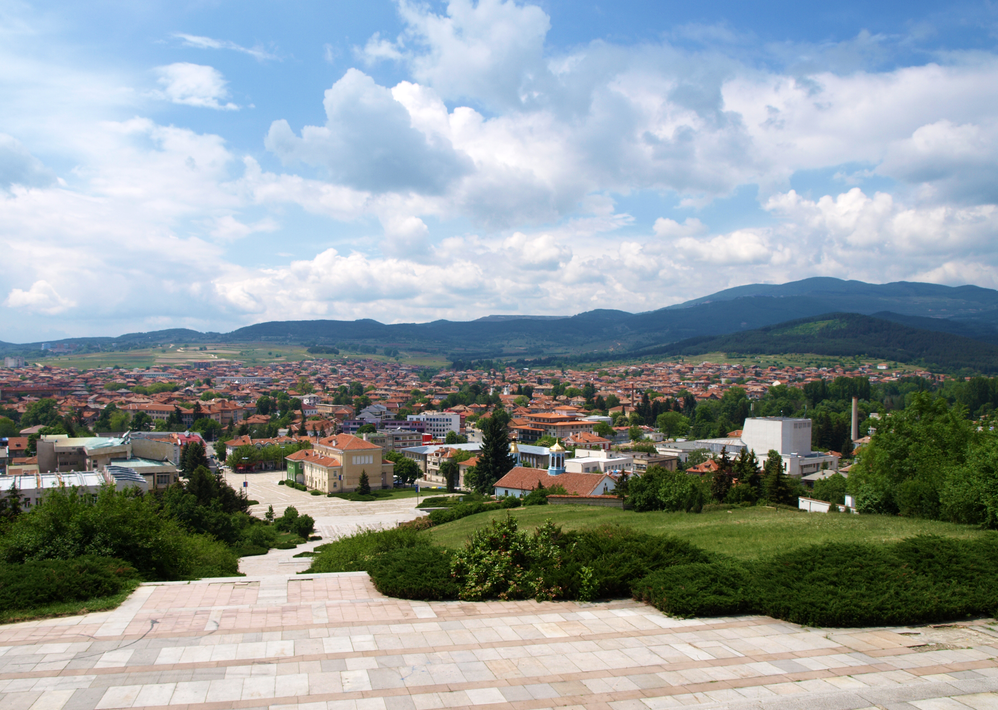 Townscape of Panagyurishte from Memorial hilltop